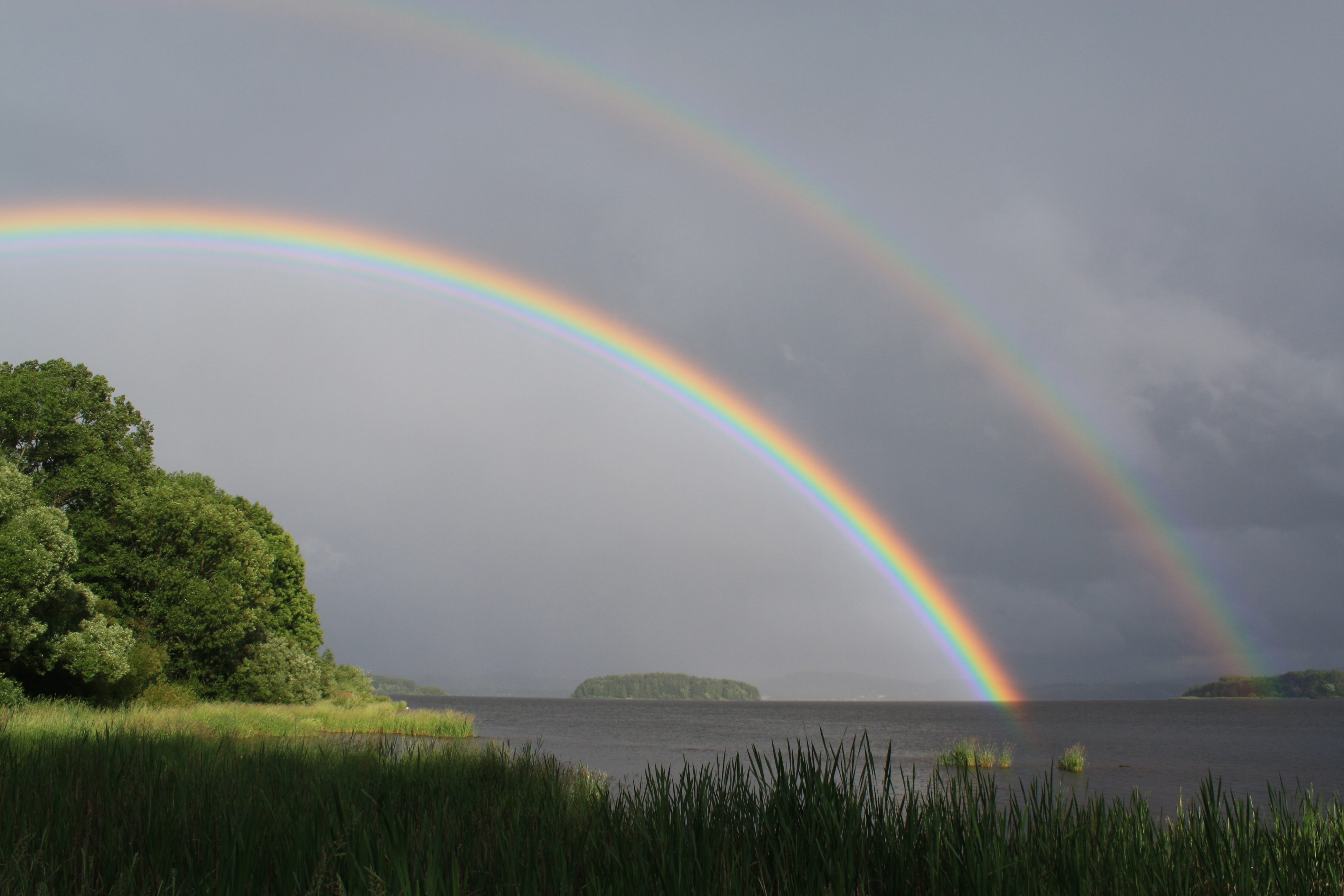 Primary and secondary rainbow with "Alexander's dark band" above the Lipno Reservoir (Údolní nádrž Lipno)